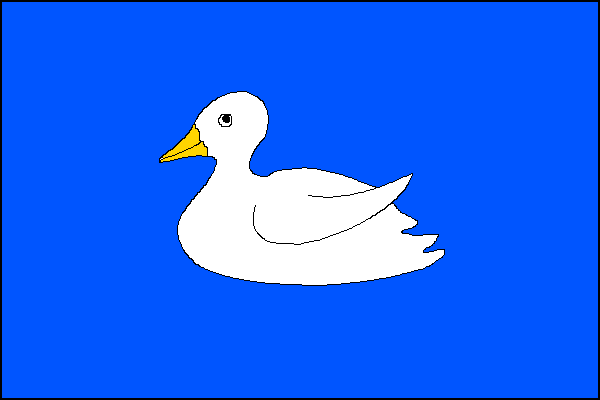 Municipal flag of Kačice village, Kladno District, Czech Republic.